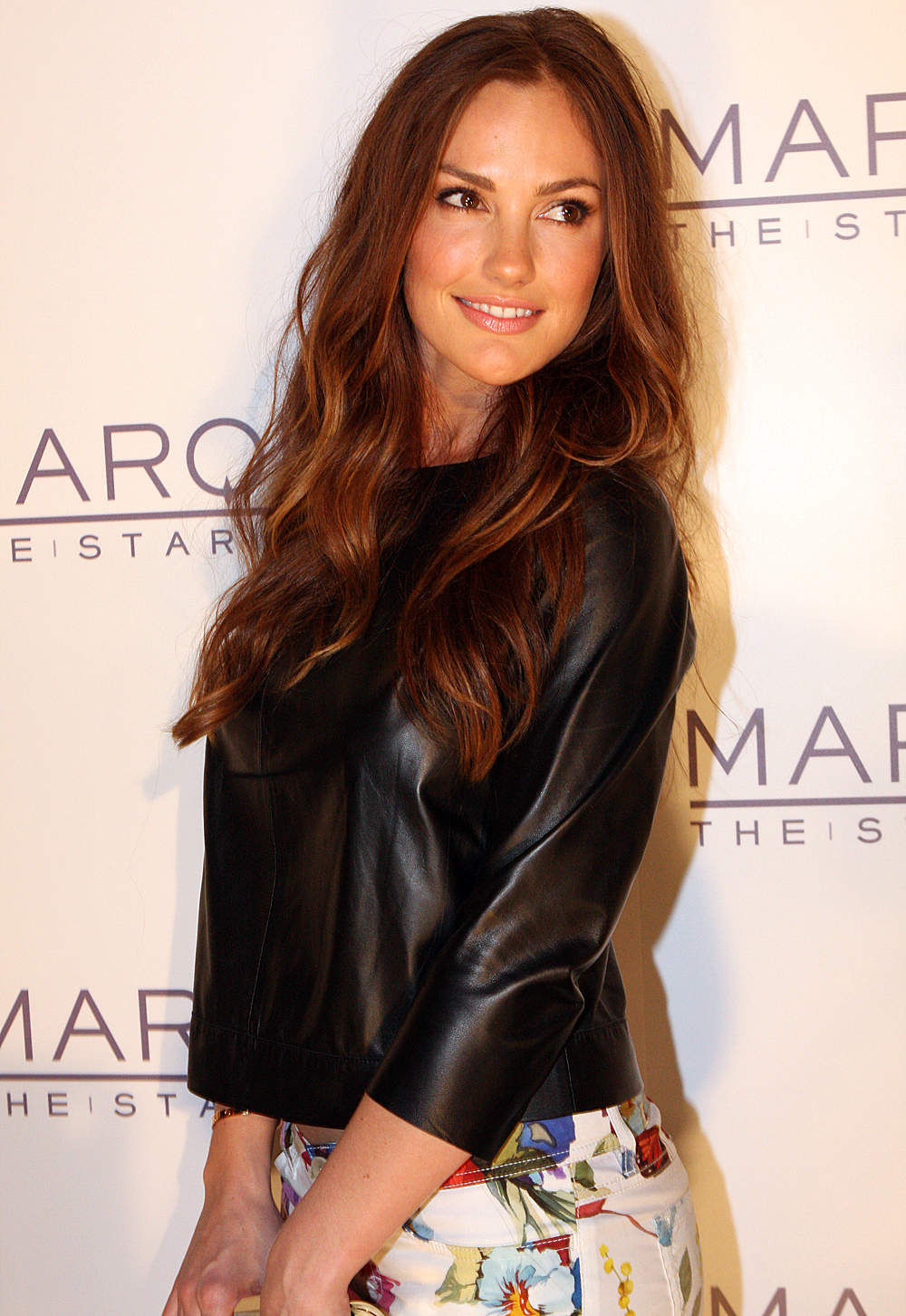 Minka Kelly at Marquee The Star opening, Sydney 2012.